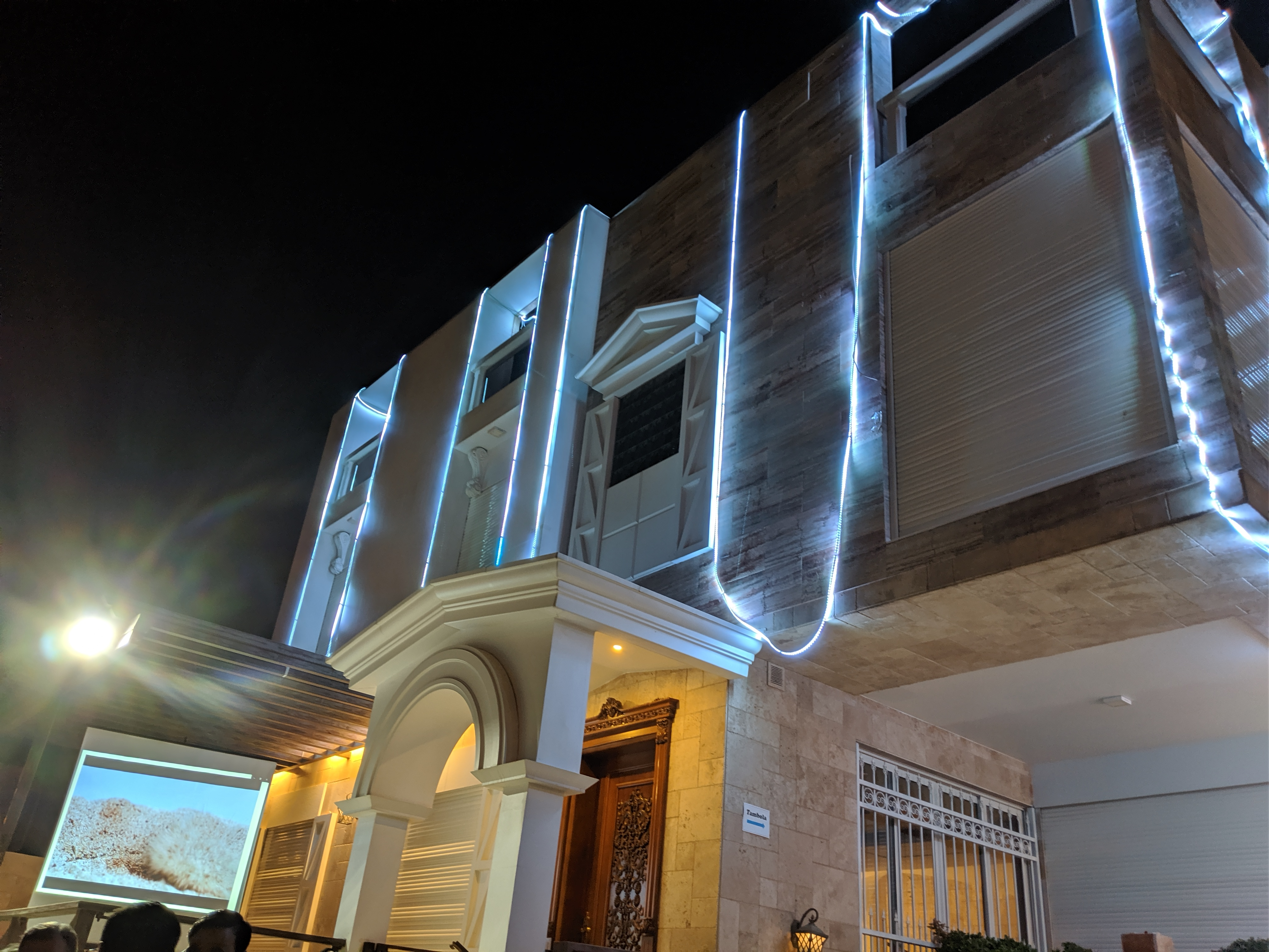 India Consulate in Erbil, Iraqi Kurdistan during Diwali festival